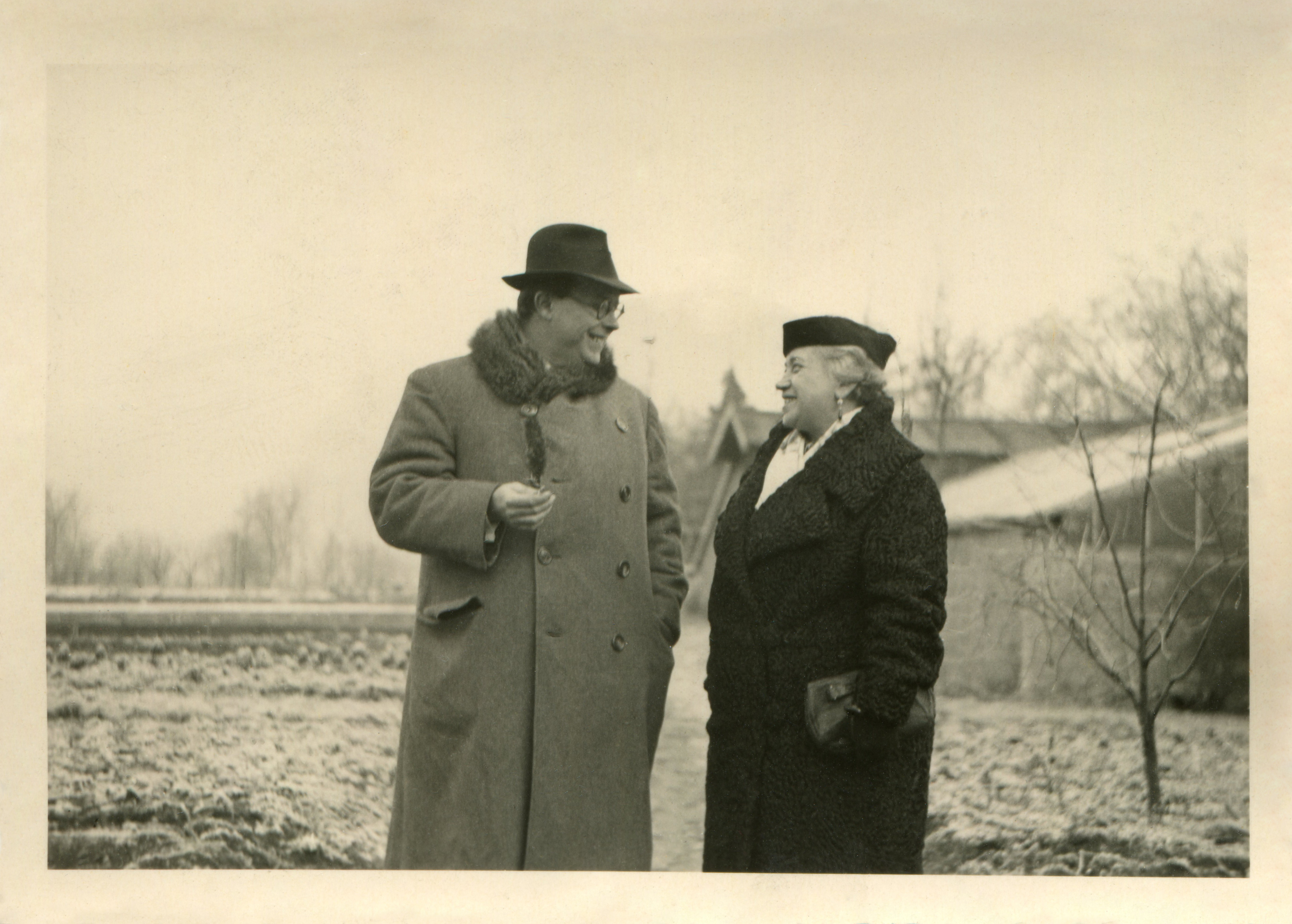 Váša Příhoda, Jindřiška Kreuzová roz. Fišerová